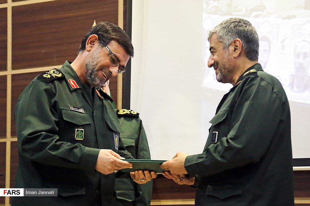 Alireza Tangsiri in Reverence and introduction of the IRGC's navy commander.